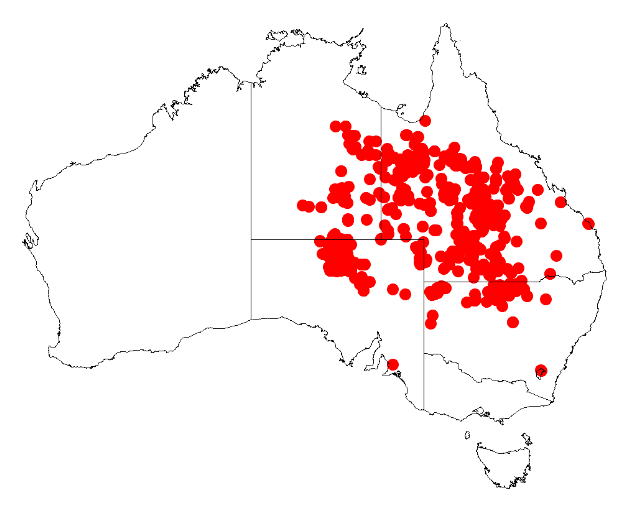 Acacia cambagei Occurrence data from Australasia Virtual Herbarium downloaded from on 8 December 2018